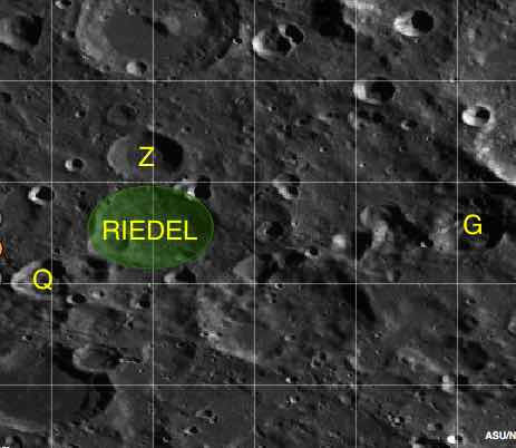 Image from IAU site: Feature Name Riedel, Feature ID 5029